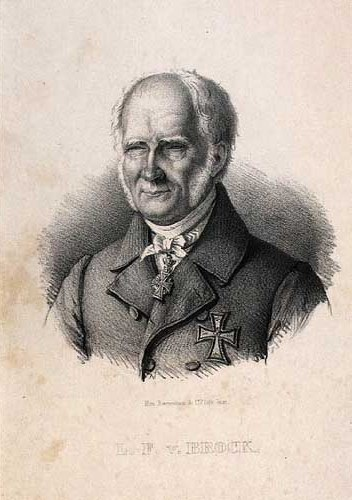 Ludvig Frederik Brock (1774-1853), Danish army officer and politician